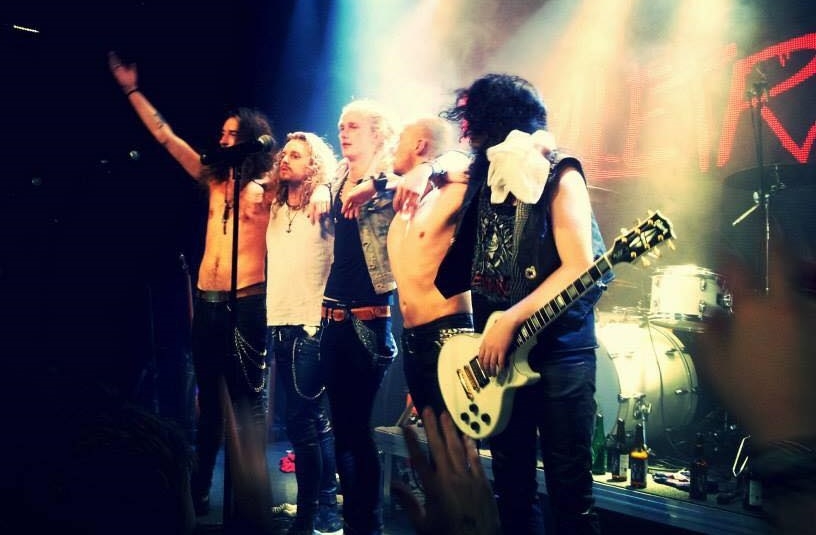 Bulletrain during a concert at The Tivoli in Helsingborg, Sweden. From left: Robin Bengtsson, Sebastian Sundberg, Niklas Månsson, Jonas Tillheden and Mattias Persson.